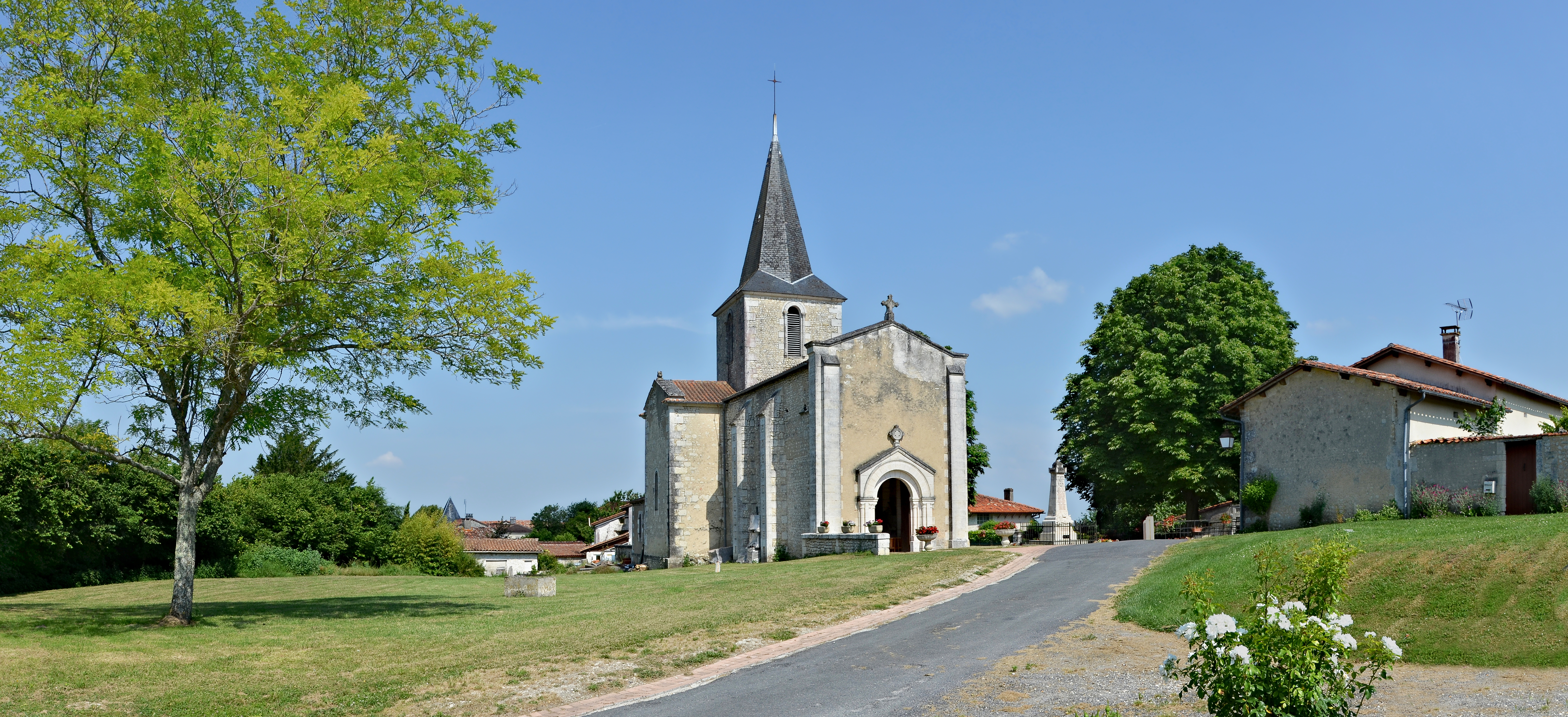 Church (12th, mid-17th, 19th centuries) and lawns, Châtignac, Charente France. .